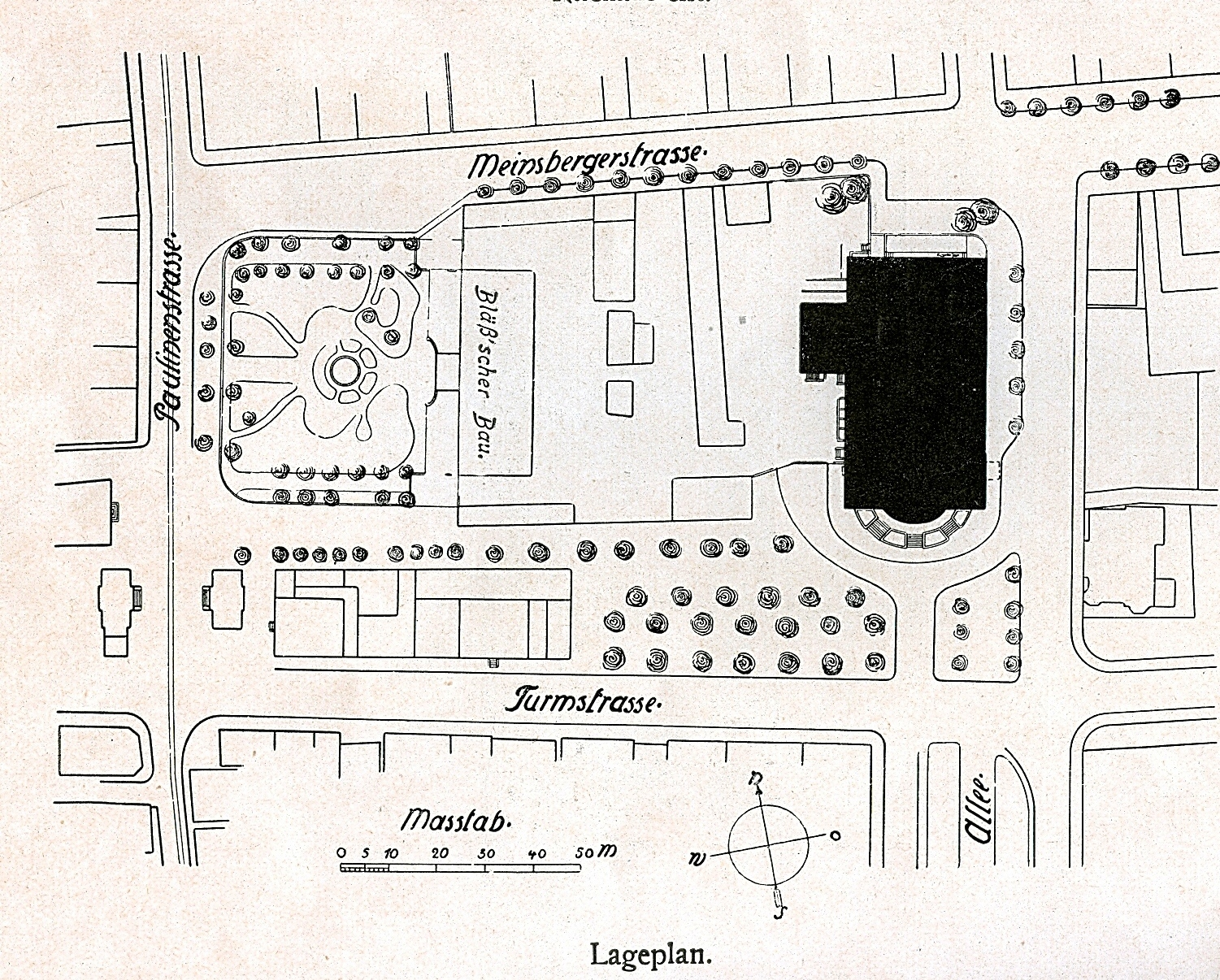 Heilbronn, Altes Theater, Lageplan, Ausführungsplan von Theodor Fischer (* 28. Mai 1862 in Schweinfurt; † 25. Dezember 1938 in München).jpg